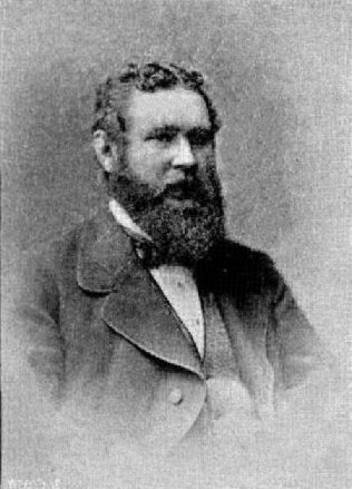 Andrew Duncan, third mayor of Christchurch. Photo included in The Cyclopedia of New Zealand [Canterbury Provincial District] (1903 edition).